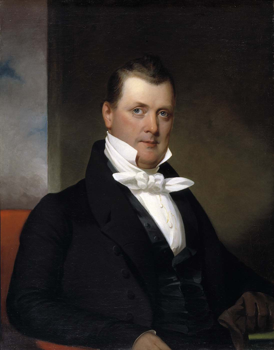 Portrait of James Buchanan painted by J. Eichholtz in 1834. Oil on canvas 36 1/8 x 28 1/4 in. (91.7 x 71.8 cm) at Smithsonian American Art Museum.